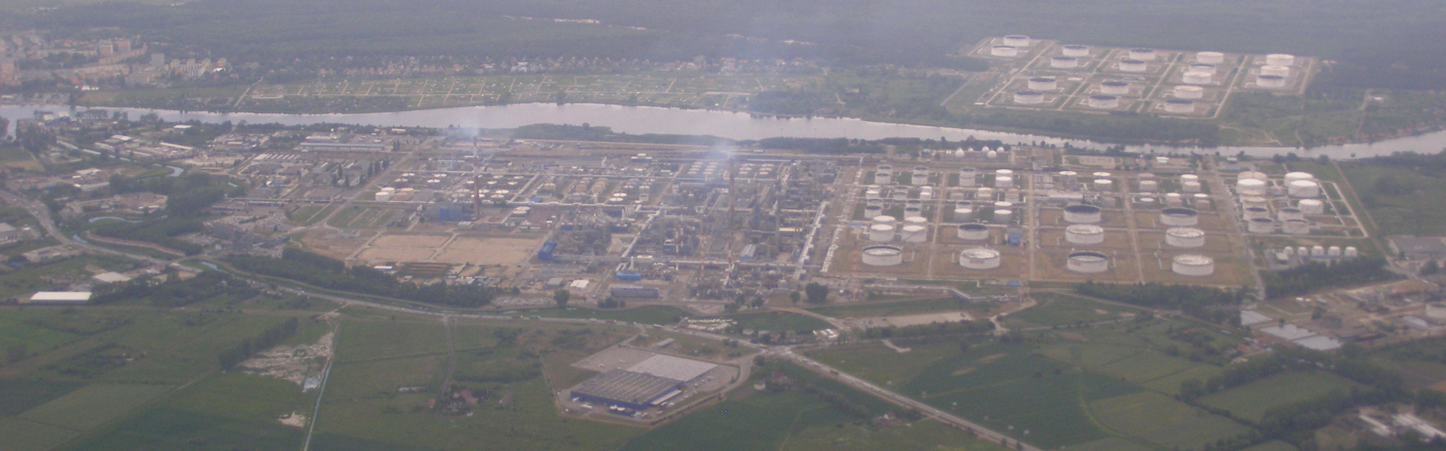 Gdańsk - Lotos oil refinery; in the background the fuel storage tanks of PERN.